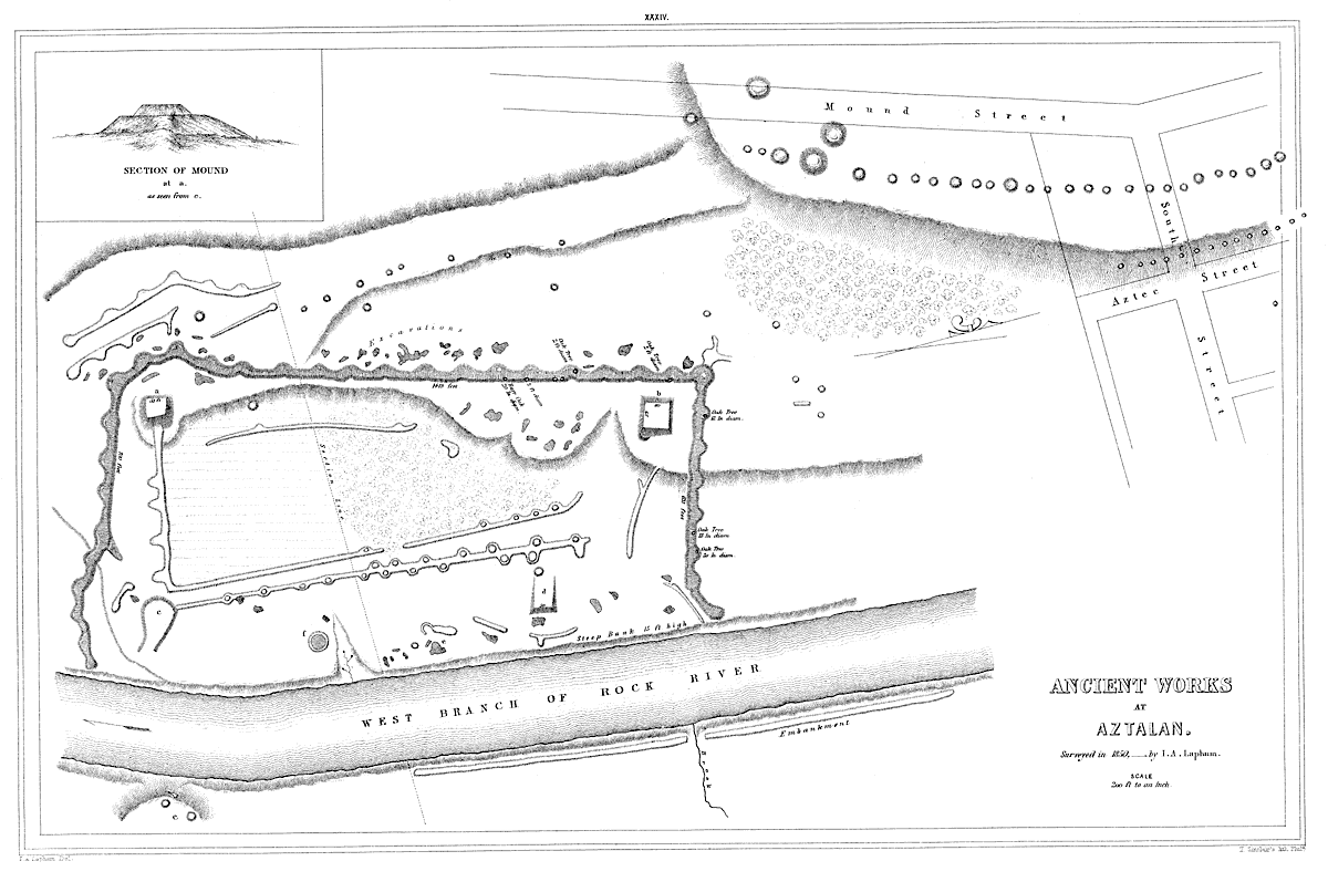 Title: Ancient Works at Aztalan. Surveyed in 1850 by I. A. Lapham. Inset: Section of Mound.